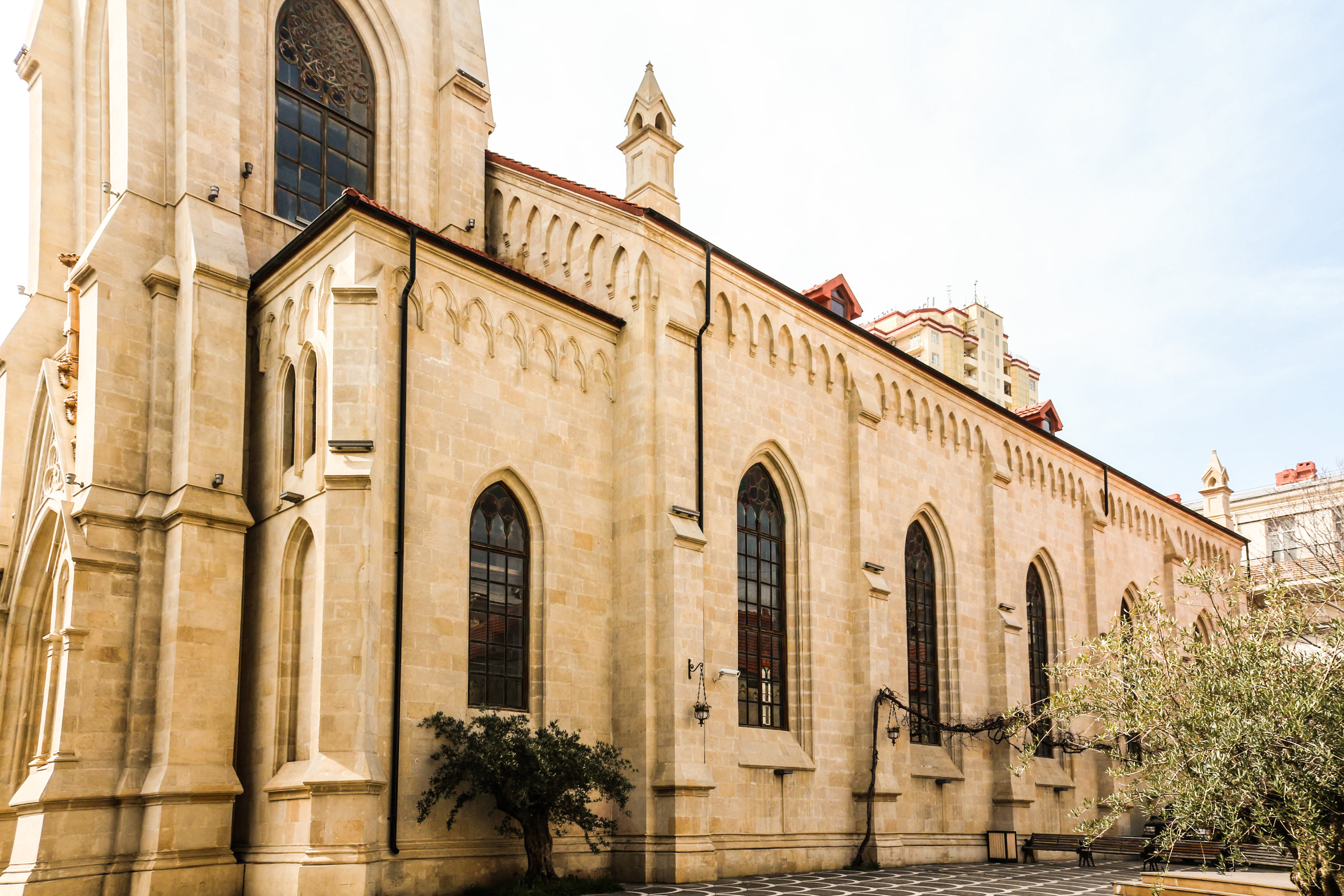 Church of Saviour in Baku